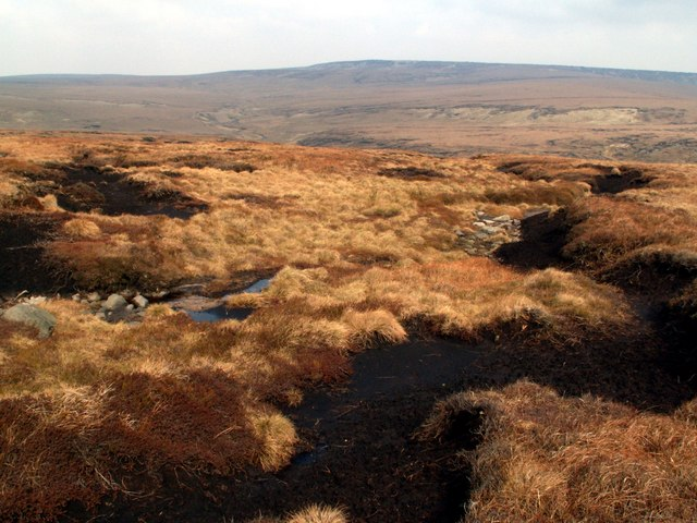 Black Chew Head Moorland. The Pennine Way is visible in the top left hand third of the photo as it swings right towards Black Hill. Taken just north of Black Chew Head within the bounds of Saddleworth in Greater Manchester.